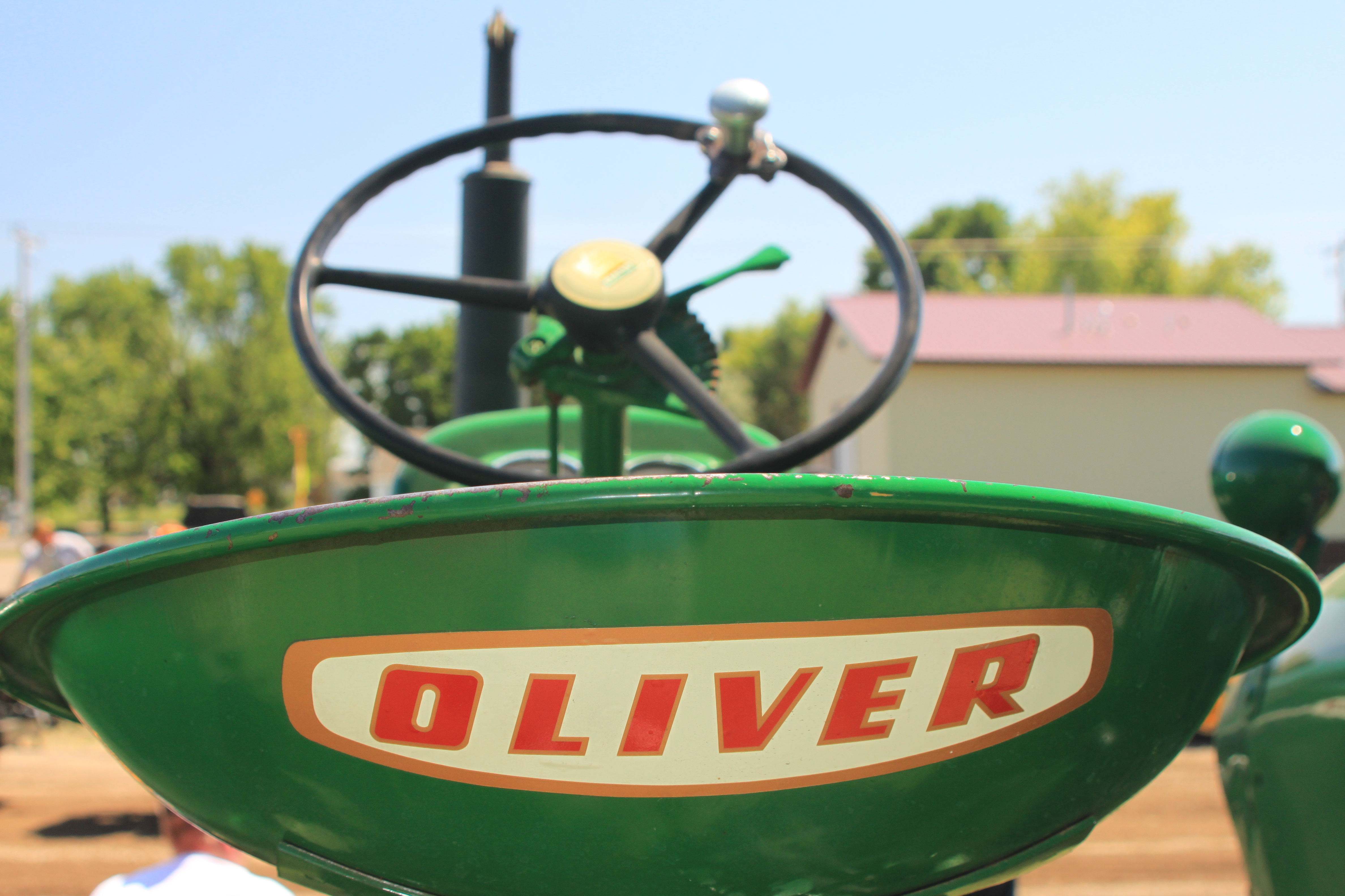 Seat and steering wheel of Oliver tractor from the rear.